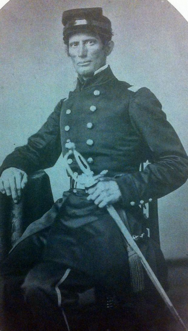 Picture of Col. William Brown, first regimental commander of the 20th Indiana.